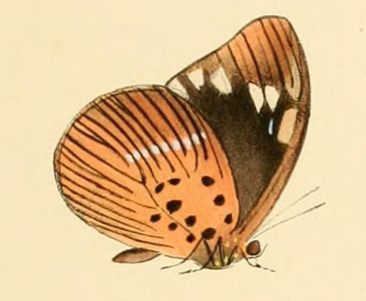 Plate: Supplement Ia Epitola honorius. Figs. 3 ♀, 4, 5 ♂. Accepted as Aethiopana honorius (Fabricius, 1793).